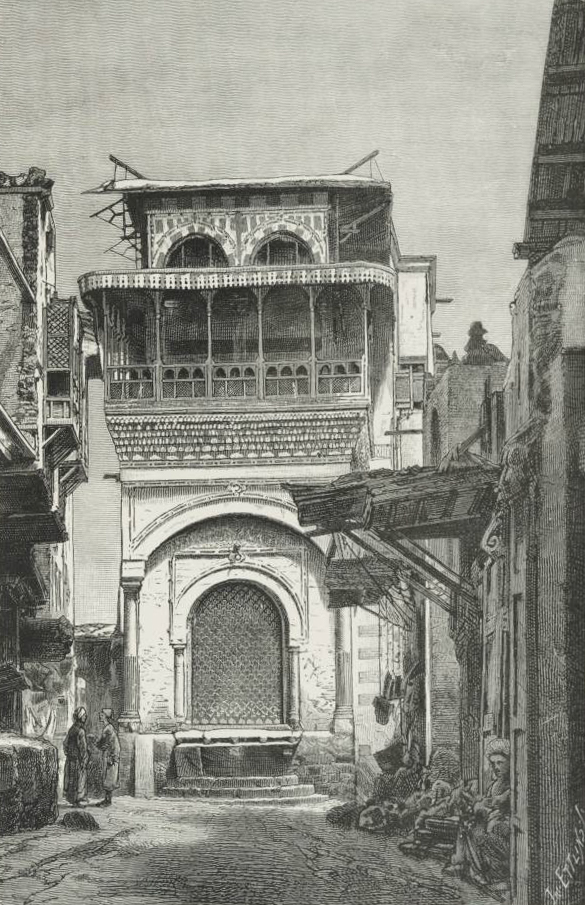 FOUNTAIN AND SCHOOL.A school viewed from further down an alley.